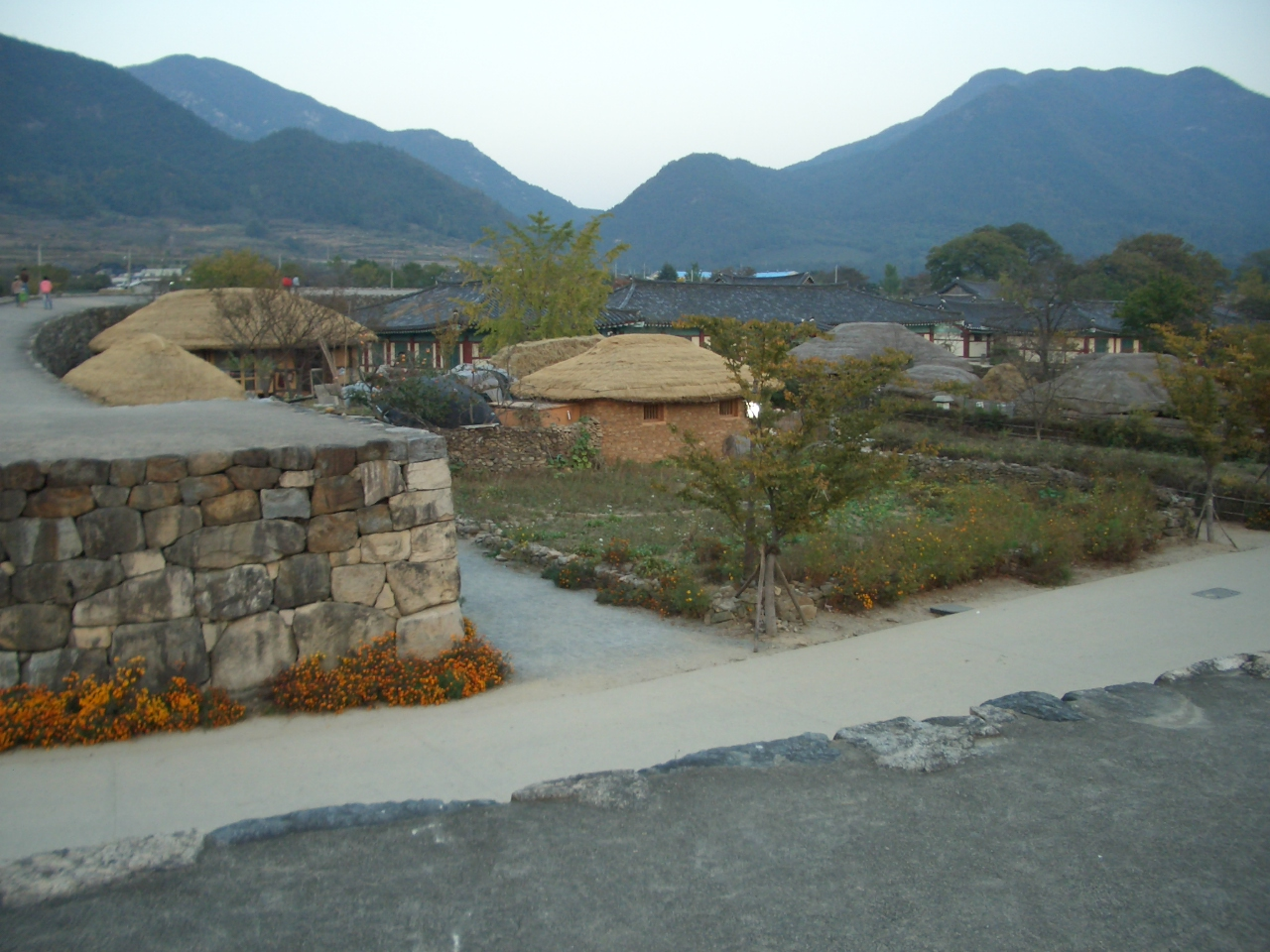 Naganepseong Folk Village, with Hanok, Suncheon, South Korea